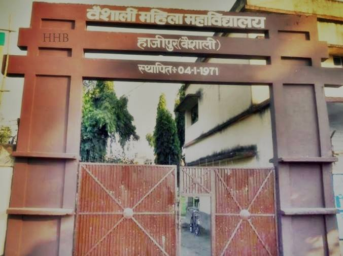 this photo is used in wikipedia article vaishali mahila college ,Hajipur. see the article for more information about this photo